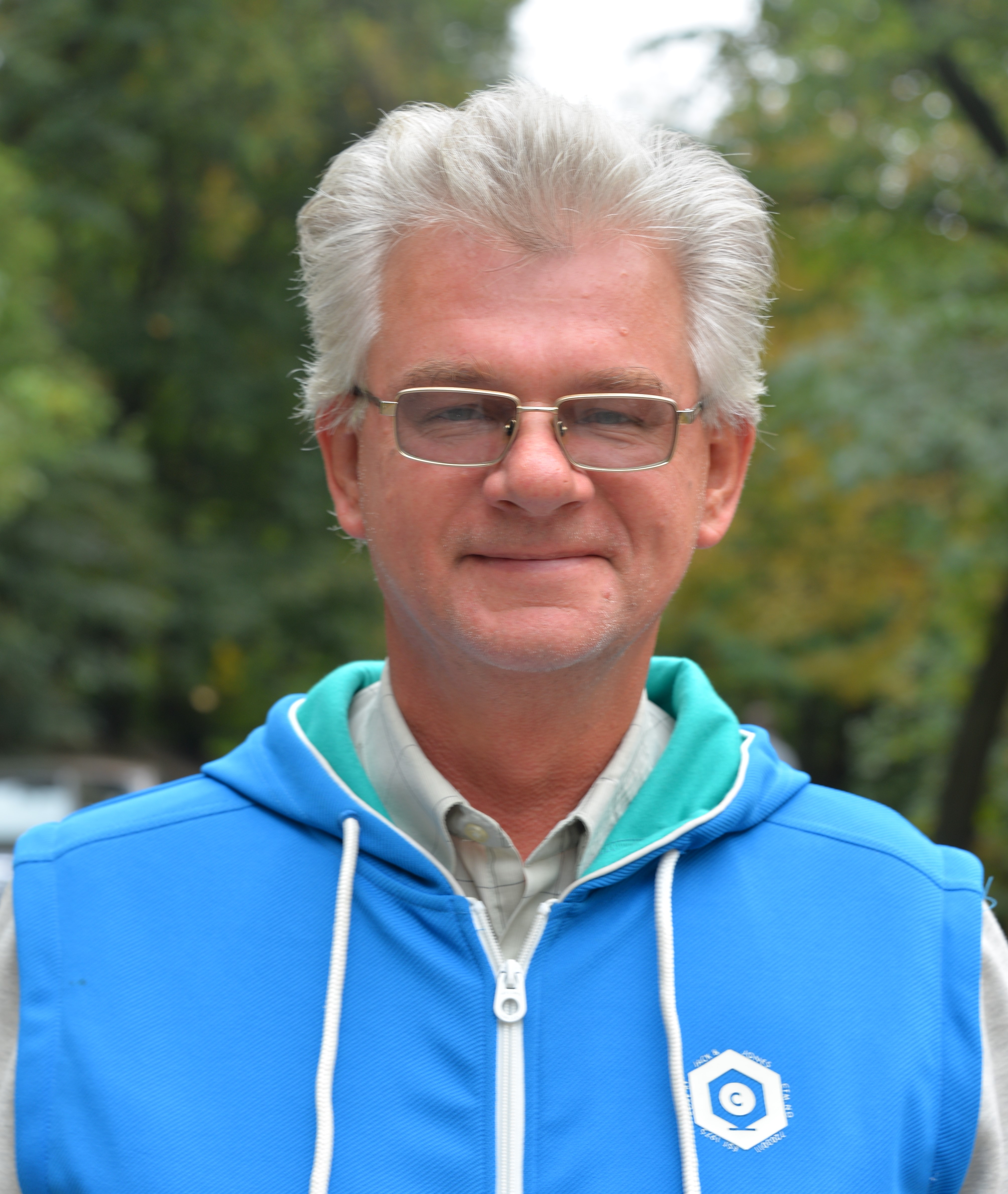 Ukrainian poet and translator Ivan Luchuk